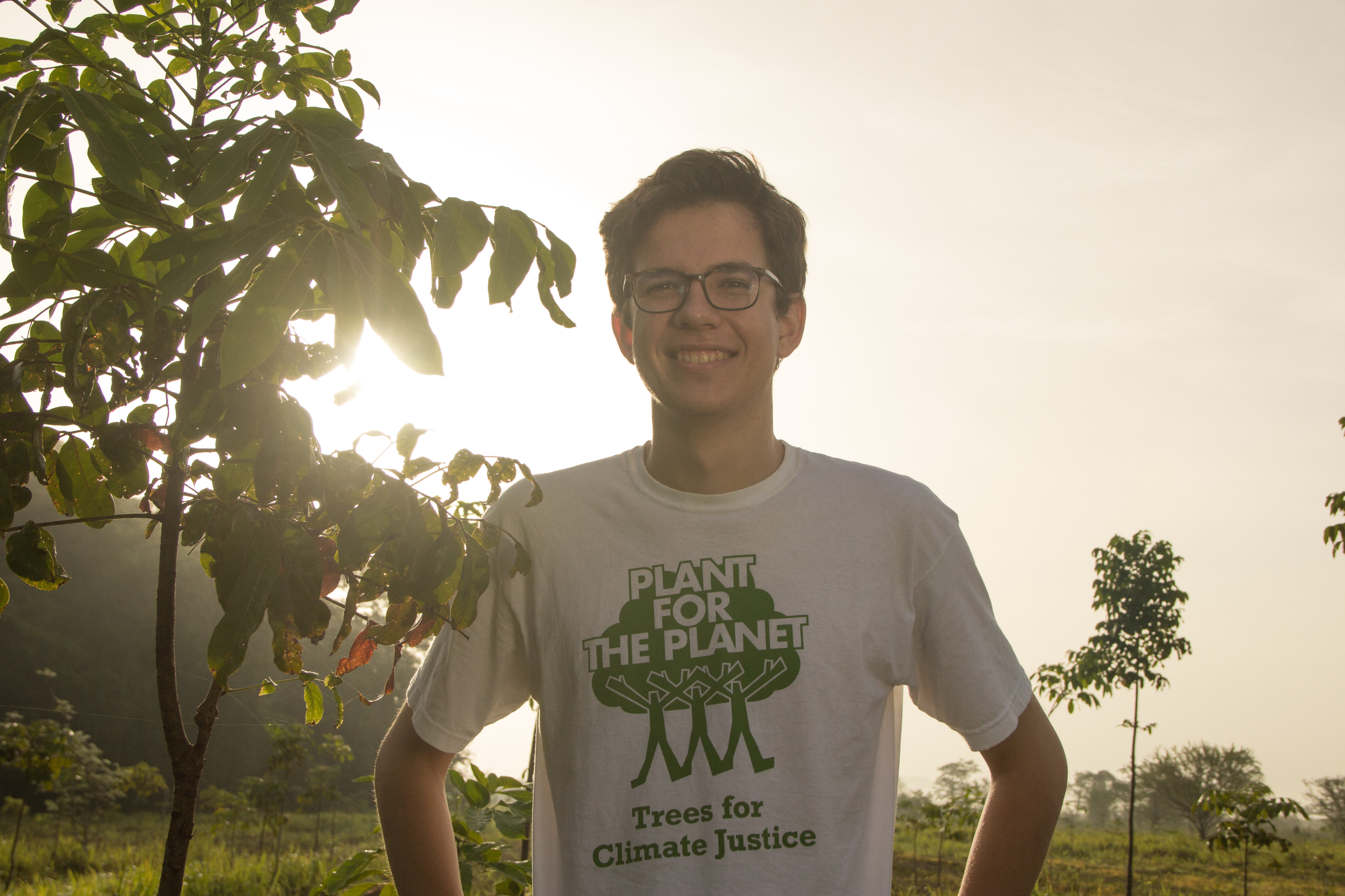 Felix Finkbeiner at the Plant-for-the-Planet Yucatán Reforestation Project in Mexico